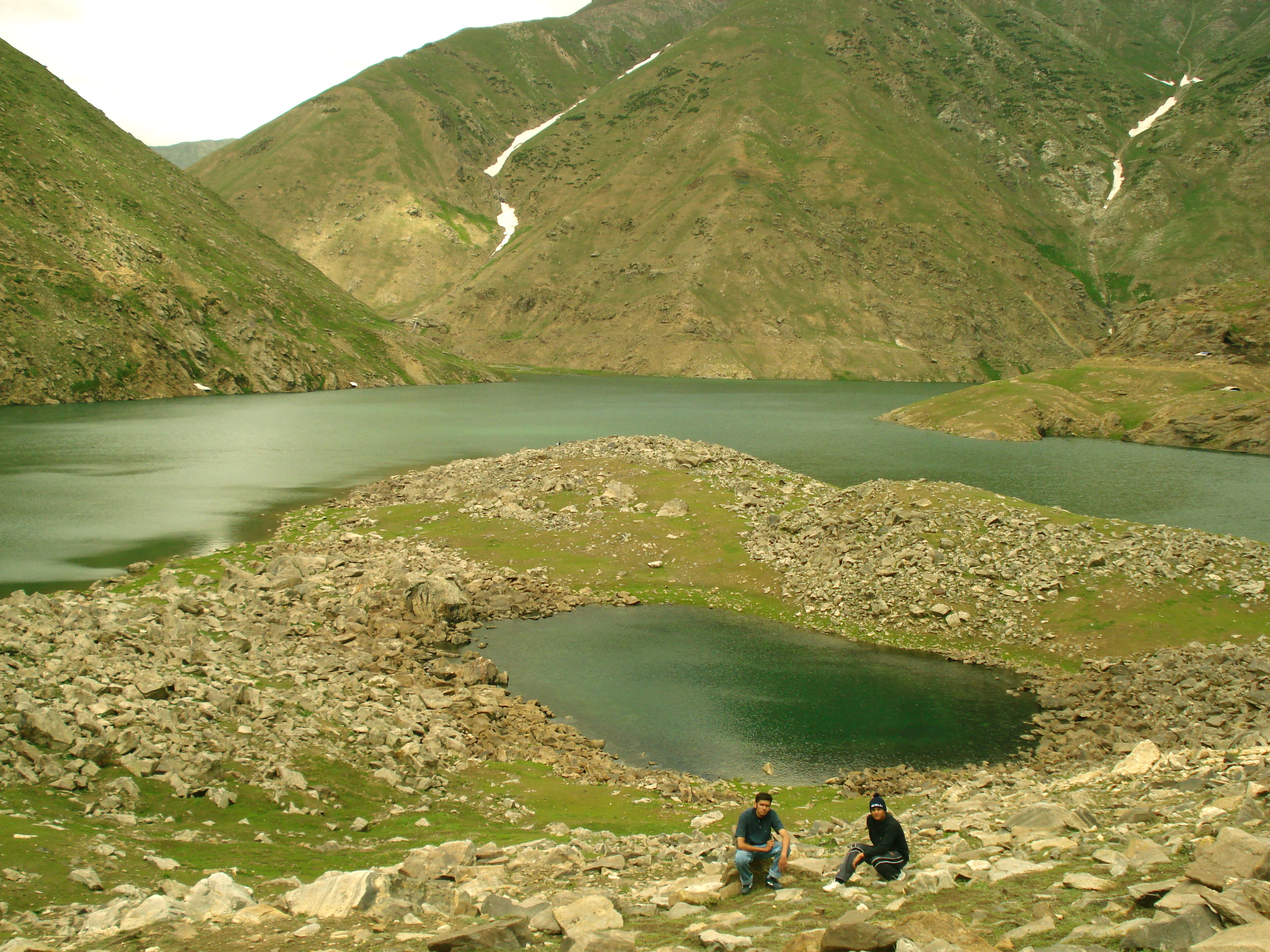 Hidden behind the hill, Lake Lulusar has a baby lake.